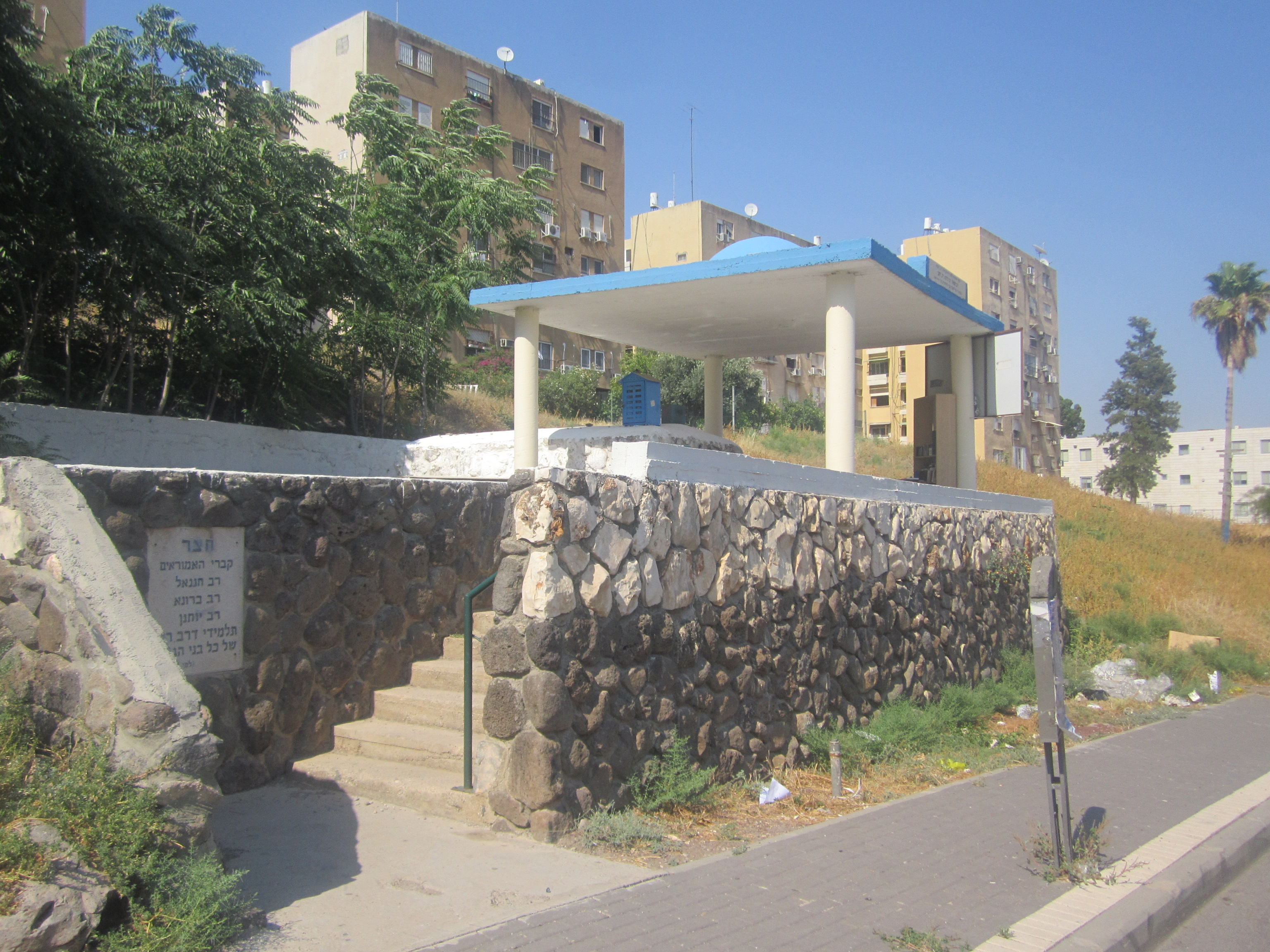 Amorai graves in tiberias קברי האמוראים בטבריה